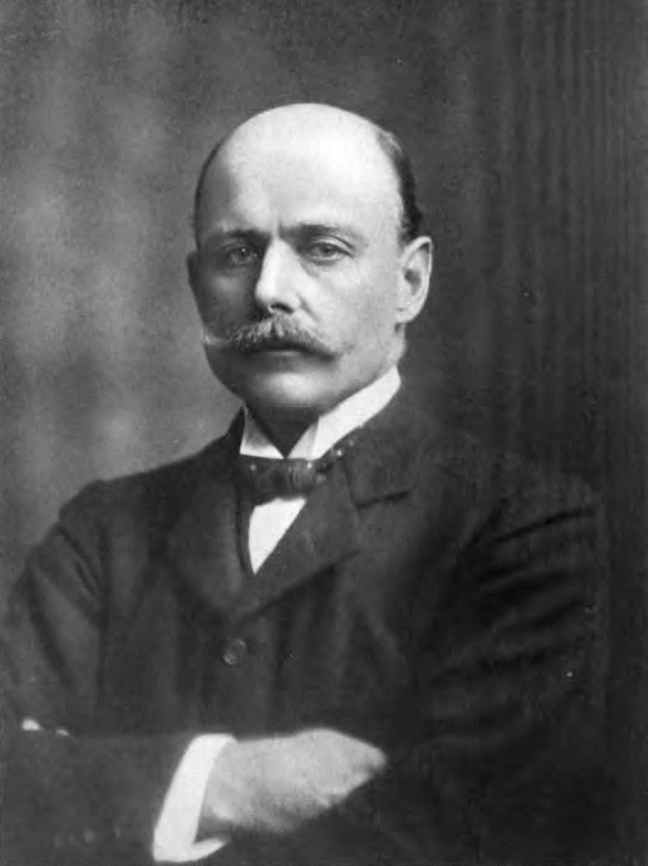 Walter Hume Long